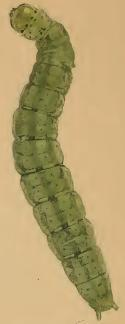 Stainton’s Natural History of the Tineina (1855–1873): Depressaria albipunctella larva